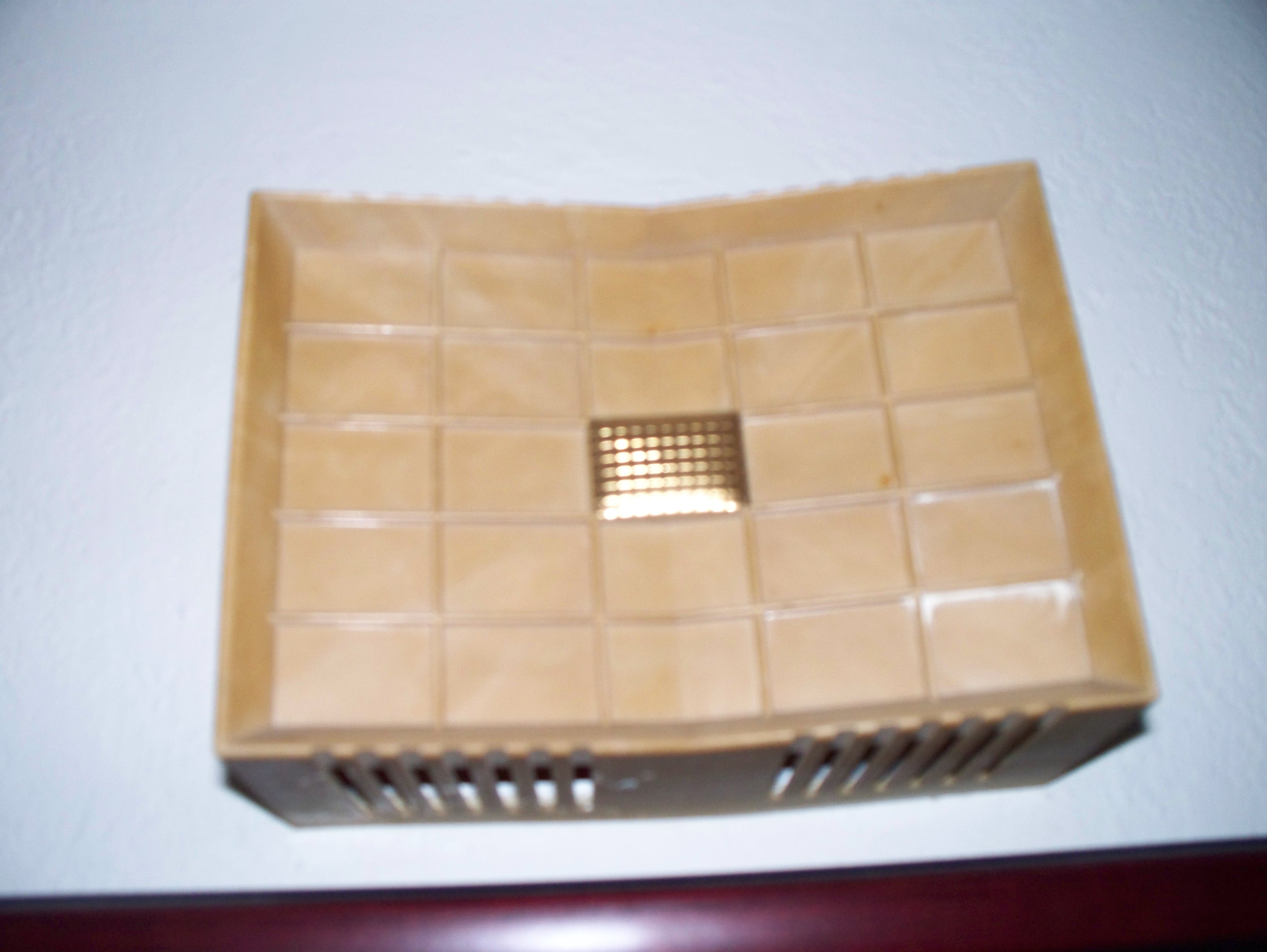 A bell box for a doorbell. 1960's